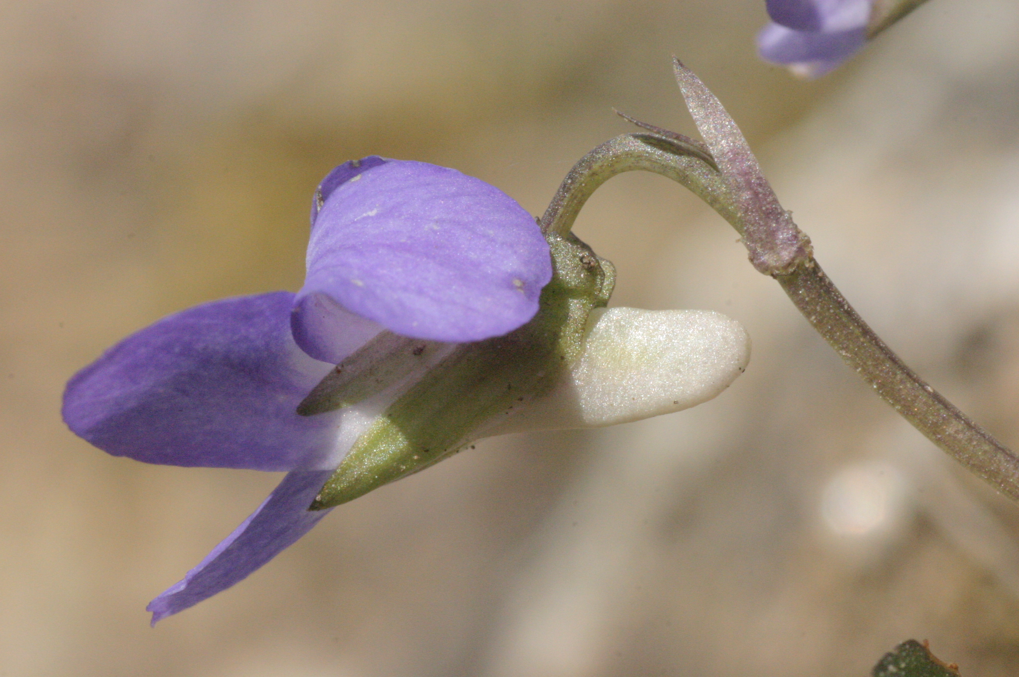 Viola rupestris